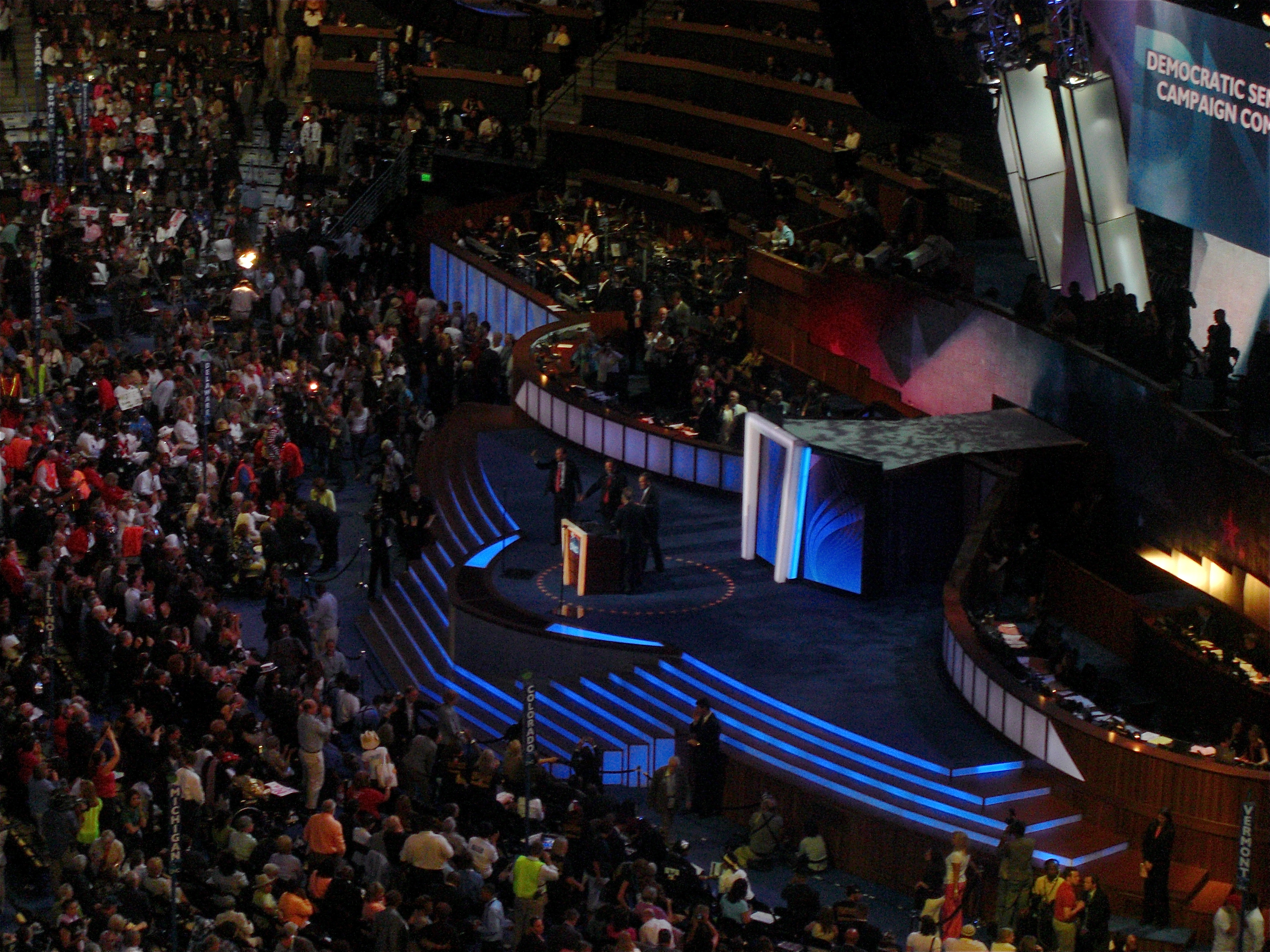 Chuck Schumer introduces Democratic Senate challengers during the third day of the 2008 Democratic National Convention in Denver, Colorado, United States.